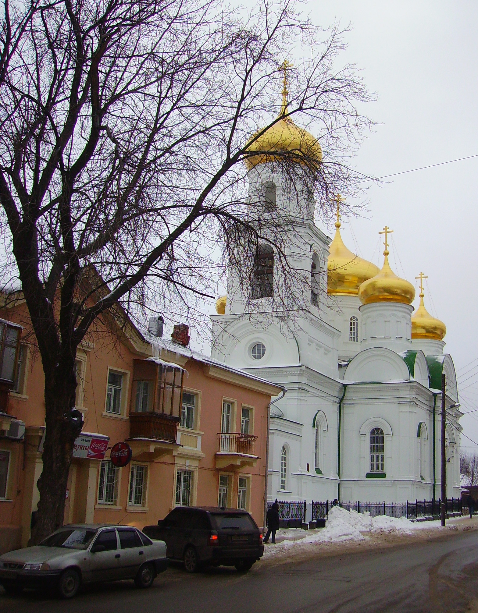 Saint Sergius of Radonezh Church